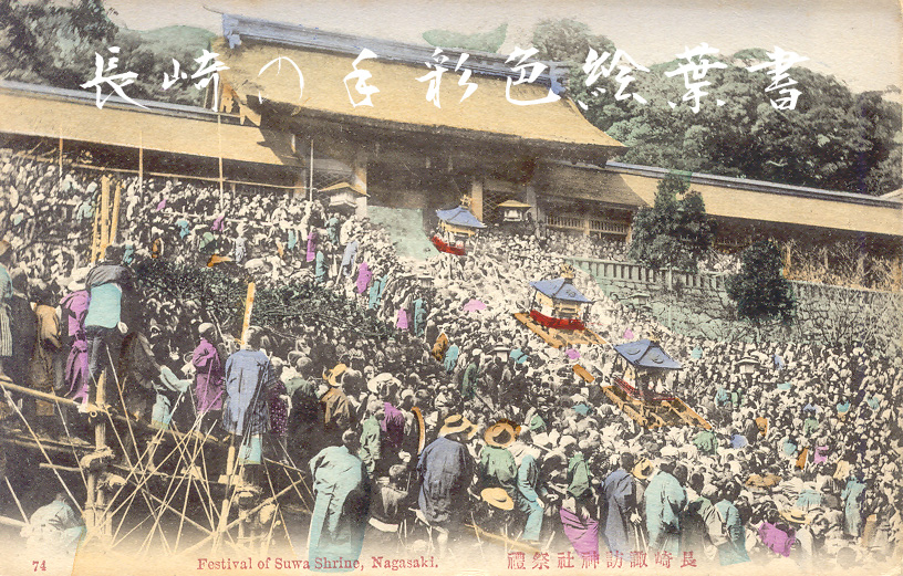 Japanese hand tinted postcard showing a festival at Suwa Shrine in Nagasaki